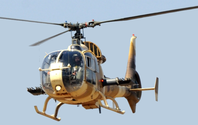 Sa 342 gazelle royal moroccan air force